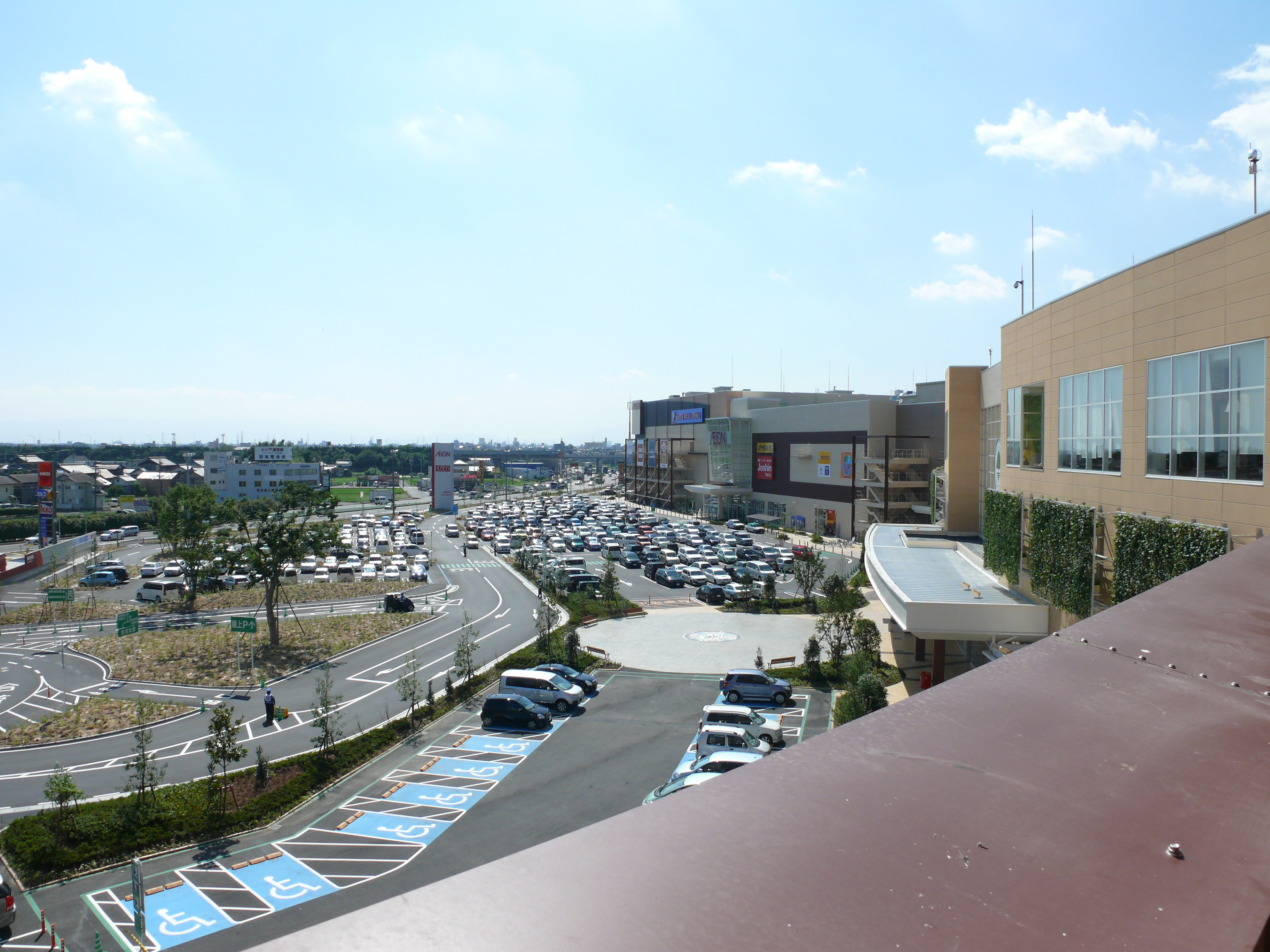 AEON Kakamigahara Shopping Center.